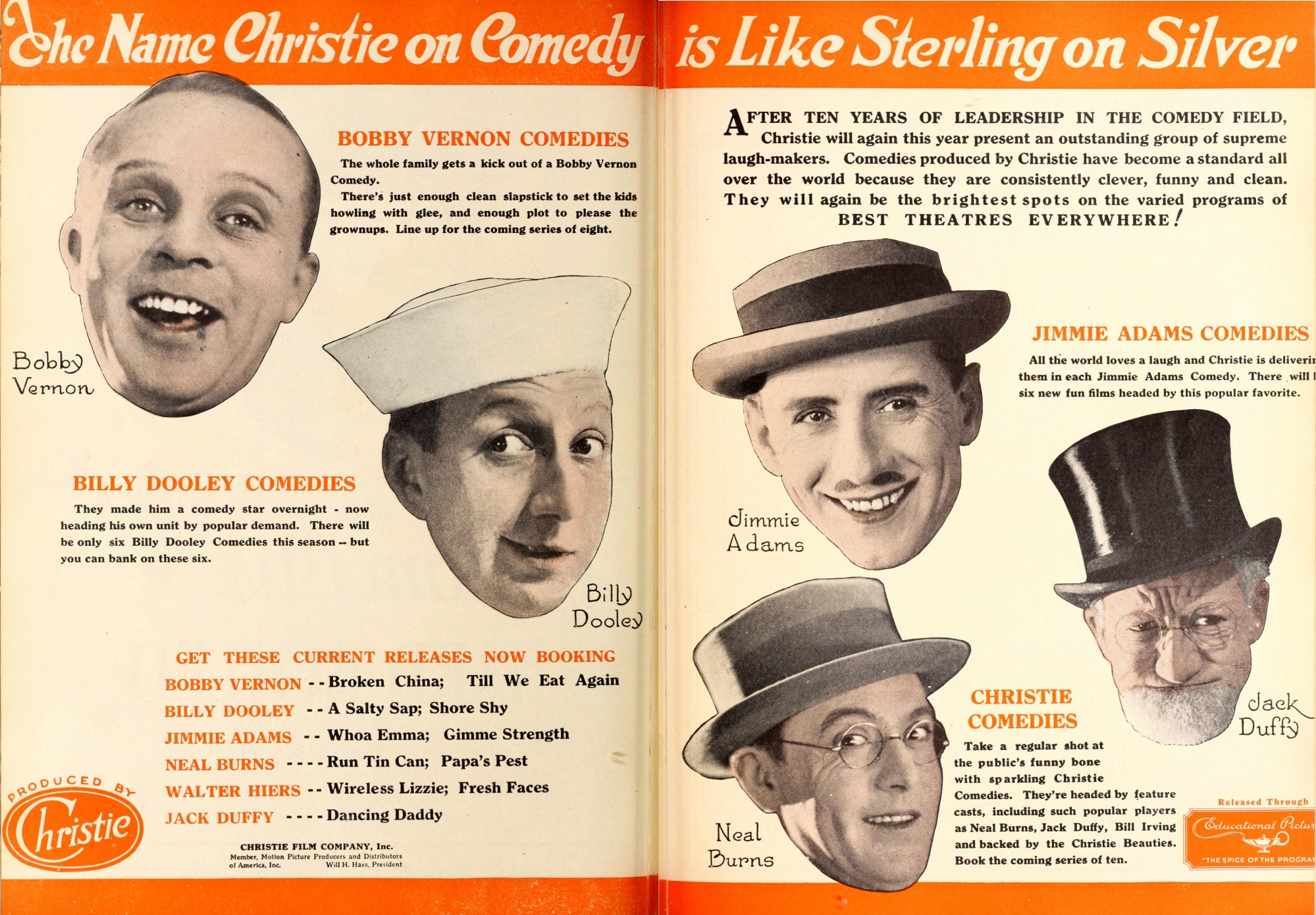 Advertisement promoting films with Bobby Vernon, Billy Dooley, Jimmie Adams, Neal Burns, and Jack Duffy.